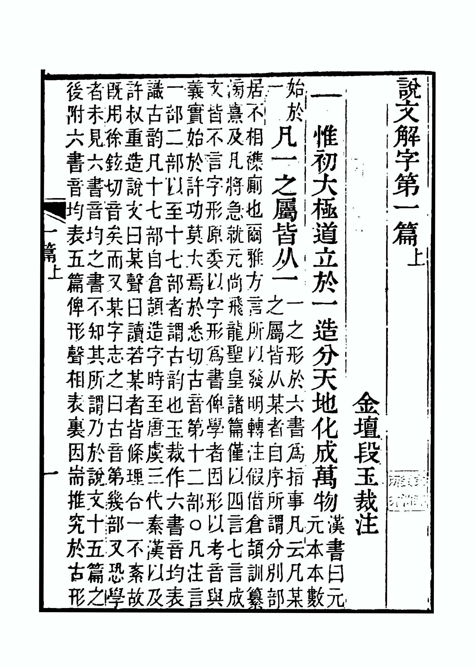 Shuowen Jiezi Zhu, page 1 文言: 《說文解字注》之卷首